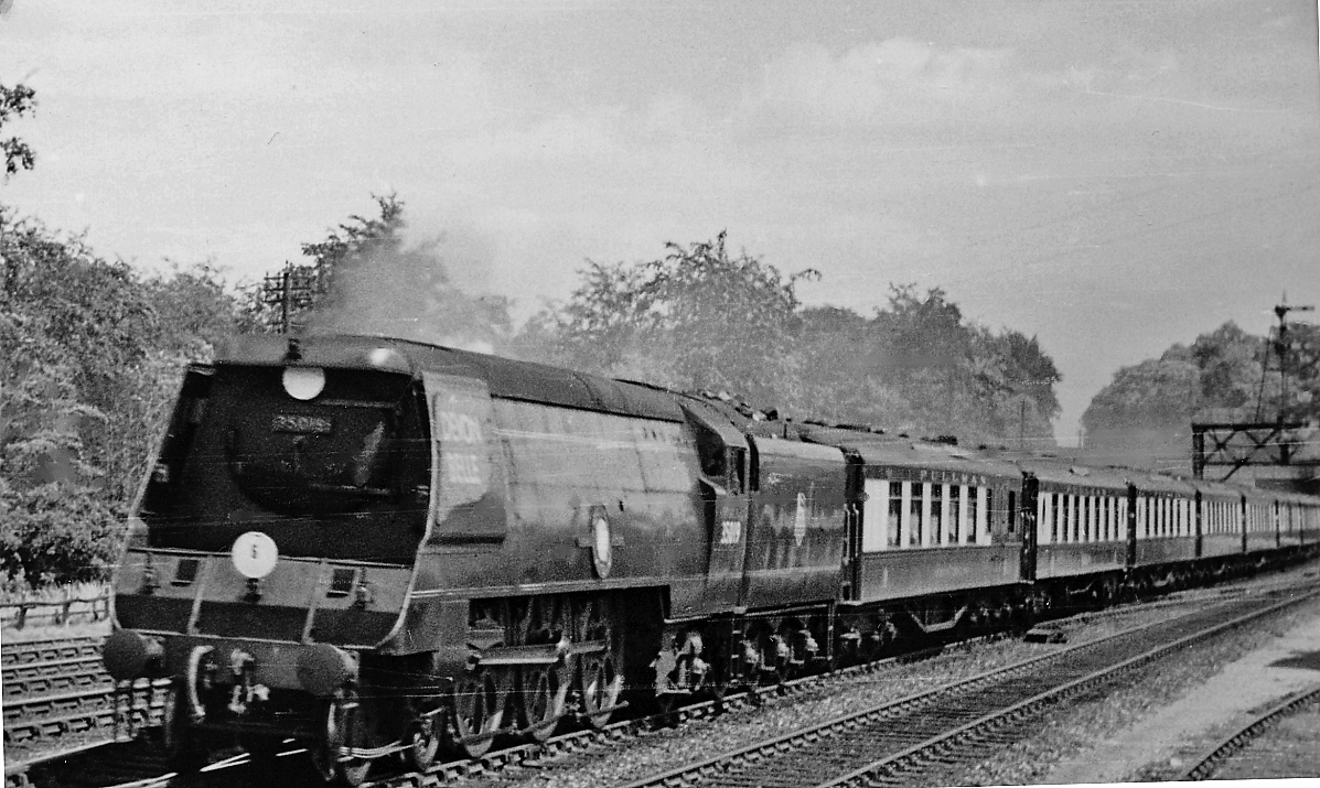 Down 'Devon Belle' passing Farnborough. View eastward, towards London: ex-LSW Waterloo - the West main line. (Cf. SU8656 : Down 'Bournemouth Belle' passing Farnborough). This crack Pullman express left Waterloo at 12.00 for Plymouth Friary/Ilfracombe (due 17.17/17.27) and was noteworthy for its Observation Car (at the rear of the Ilfracombe portion), also for not calling at Salisbury but changing engines at Wilton instead. However, it ran in the Summers of 1947 - 1954 only, so was not a great success. Here the locomotive is Bulleid 'Merchant Navy' 4-6-2 No. 35019 'French Line C.G.T.' (built 6/45 as No. 21C19, renumbered 4/48, rebuilt 5/59, withdrawn 9/65).